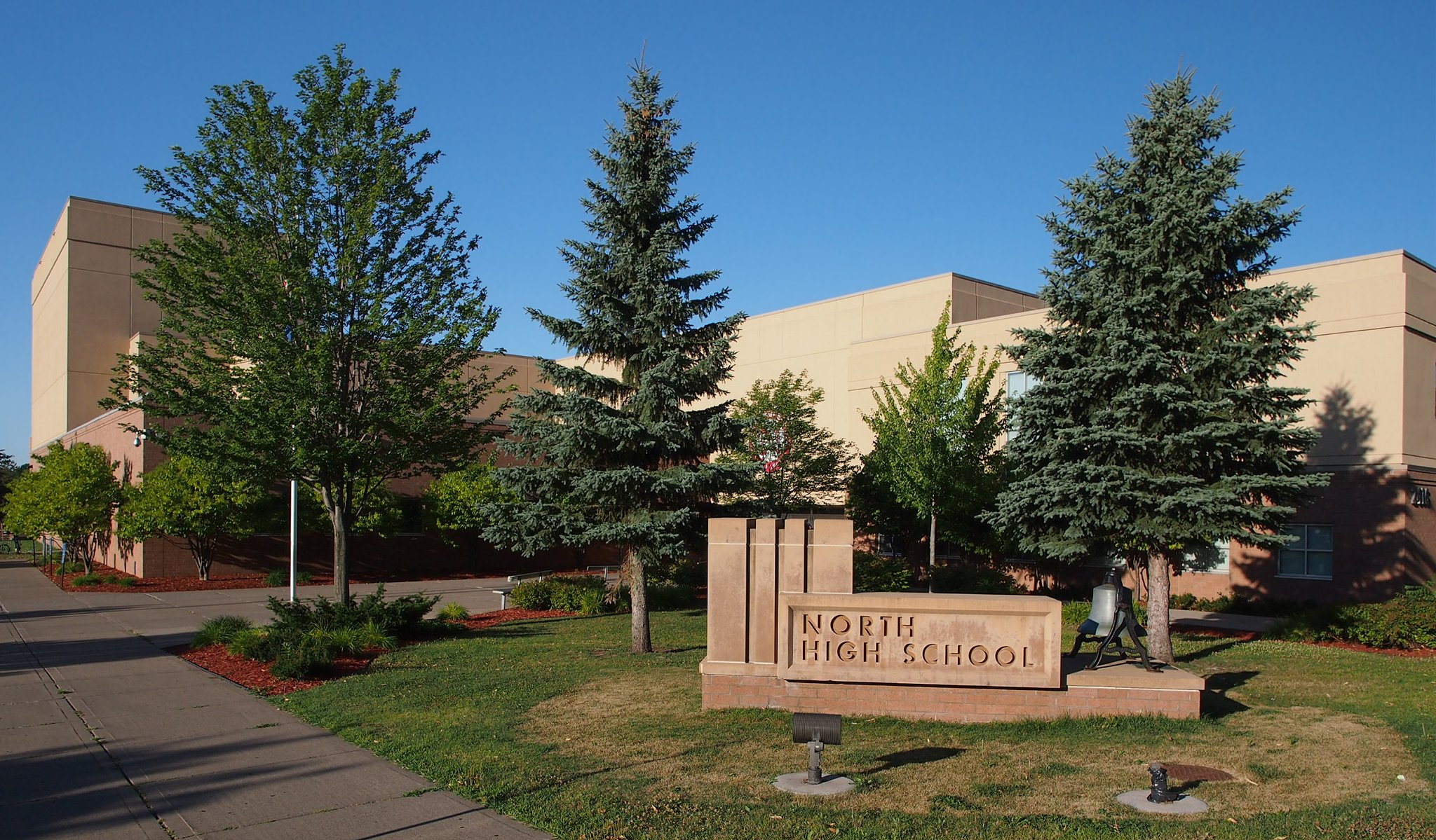 North High School, 2416 11th Ave E, North St Paul, Minnesota, USA. Viewed from the northeast.